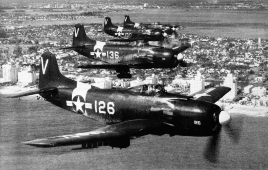 Four U.S. Navy Reserve Martin AM-1 Mauler attack planes over Miami Beach, Florida (USA), ca. 1950/51. The Maulers belonged to attack squadron VA-727 based at Naval Air Station Glenview, Illinois (USA).